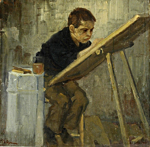 Gabriel S. Wier. "Young artist". 1923 oil on plywood. 49.9 x 48.3 cm. National Art Museum of Belarus.